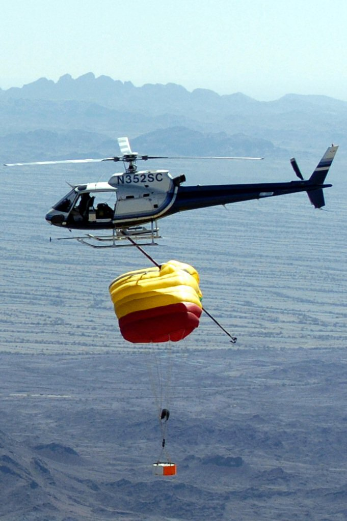 A practice run of the failed Genesis retrieval mission, in which a helicopter was planned to intercept the sample capsule to avoid a hard landing.